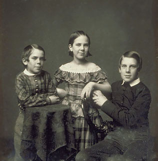 Daguerreotype from 1854 with portrait of Edward Jackson Holmes, Amelia Jackson Holmes and Oliver Wendell Holmes, Jr. Image courtesy of the Harvard University LIbrary.